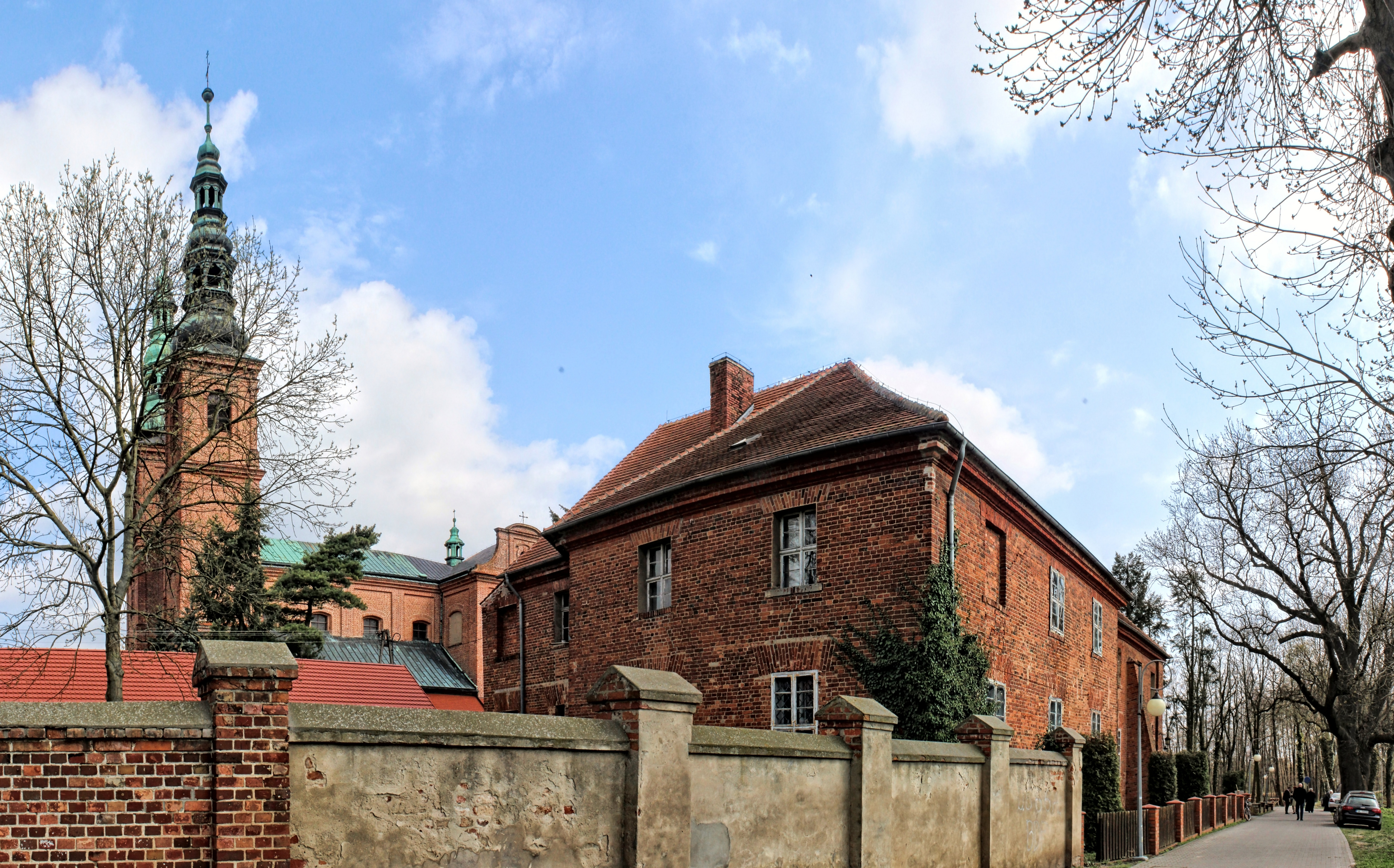 Przemęt, Saint John the Baptist church